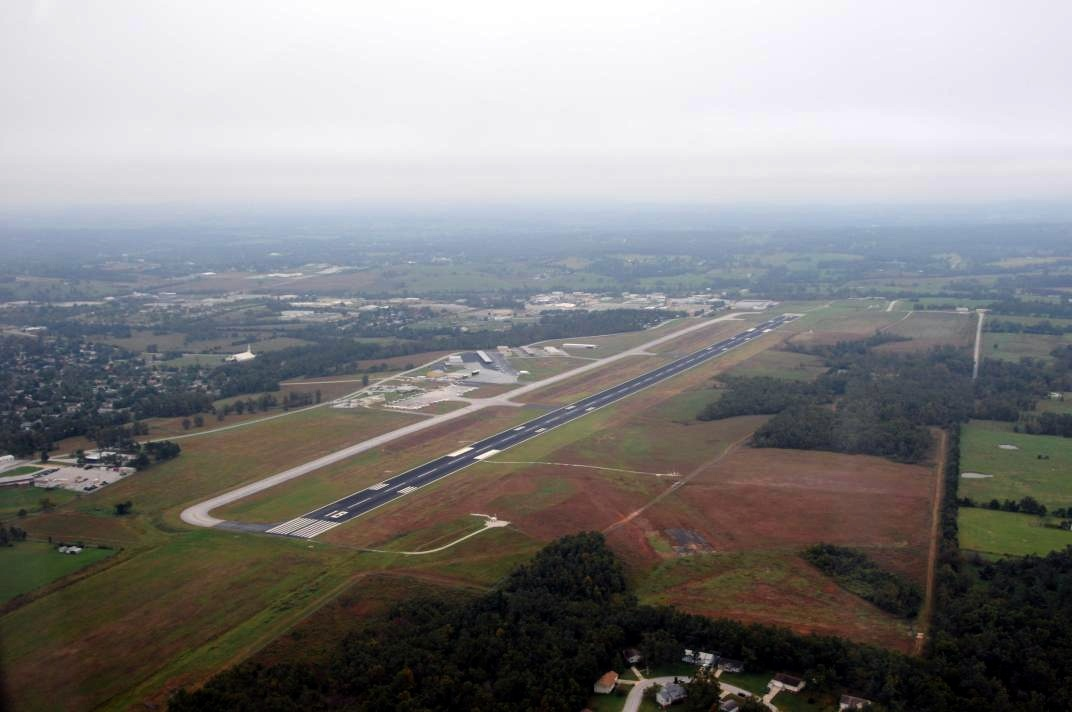 Crappy Aerial Photo of Harrison Arkansas Airport HRO Oct 2009